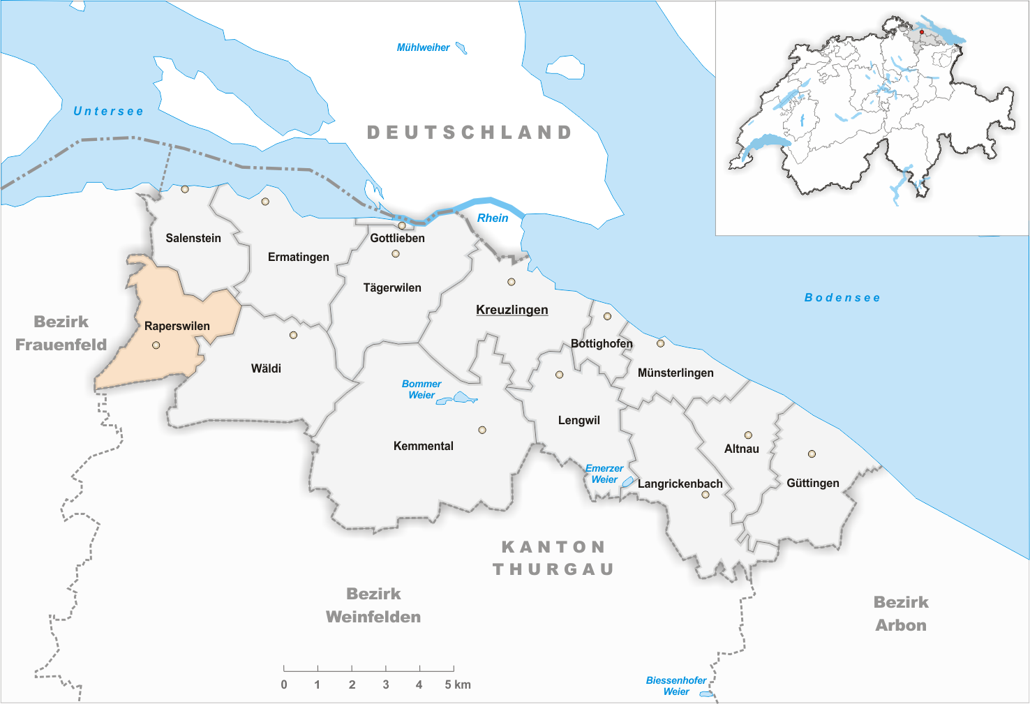 Municipality Raperswilen